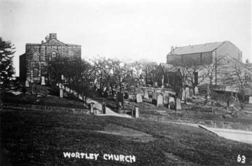 Archive image of the old and new St John the Evangelist churches at Wortley, Leeds, West Yorkshire, England. Confusion has arisen because the names of the churches, parishes and districts are so similar. The image above is of St John the Evangelist, Dixon Lane, Wortley, Leeds. The chapel on the left of the image was built in 1787 ish under the patronage of John Smyth Lord of the Manor of Wortley. The right hand one was built in 1898 and still stands. The church designed by Dobson was called St John the Baptist. It was in New Wortley, built around 1854, under the patronage of Dr Hook and this was bombed during the second world was and demolished afterwards. Photographs can be seen on Leodis website. It was on Spence Lane. If you look on Leodis Website (photographs of Leeds ) you will be able to see the bombed out church of St John the Baptist, Spence Lane, Holbeck. This was the New Wortley church and is no longer extant.